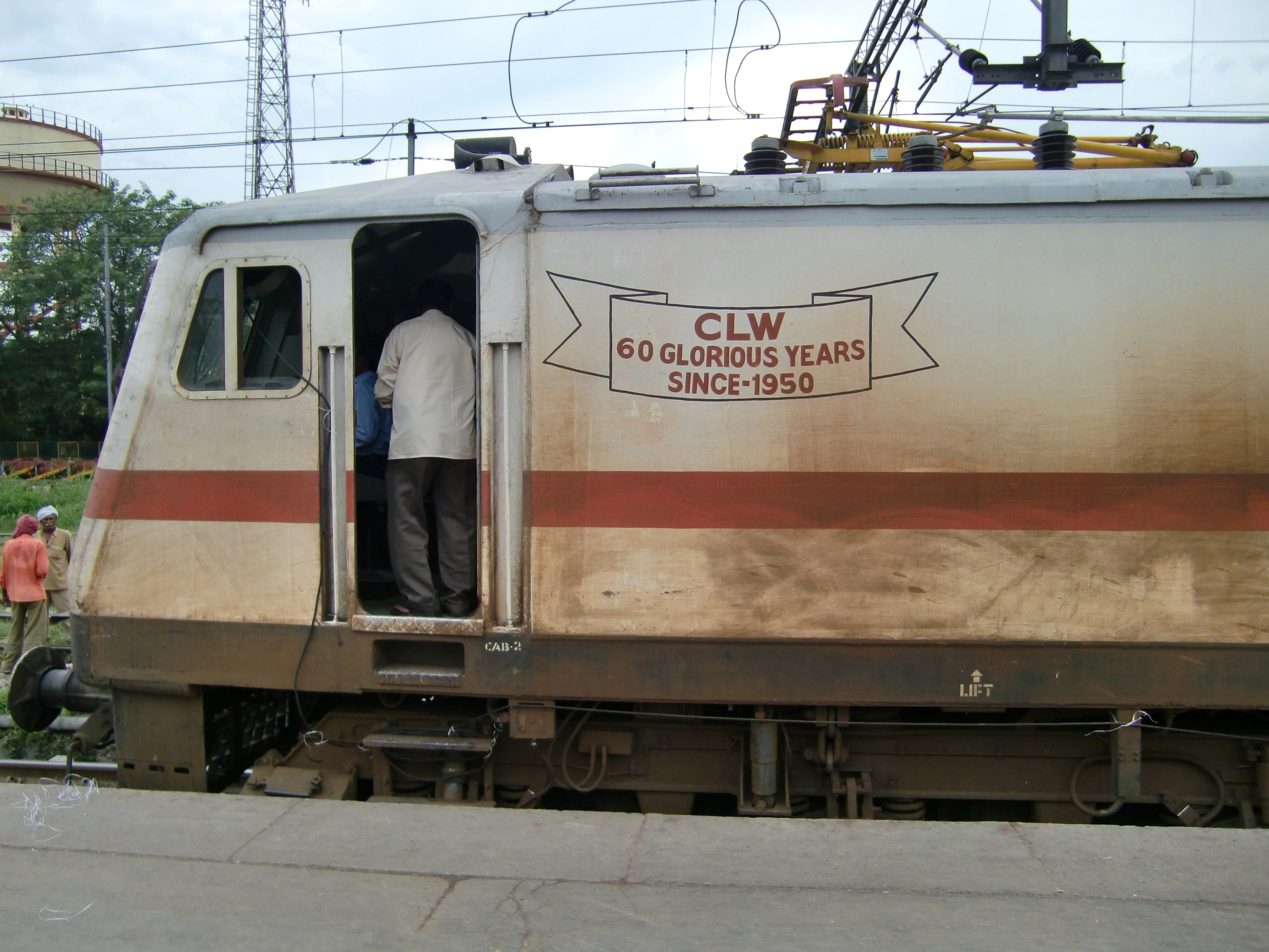 Indianlocomotion maker CLW / Chittaranjan Locomotive Works 60th anniversary painting on EL 30245/WAP-7